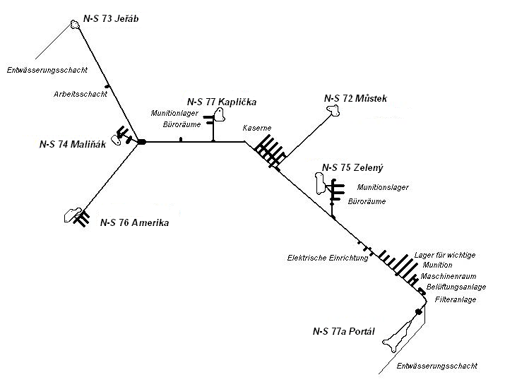 Map of artillery fortress Dobrošov